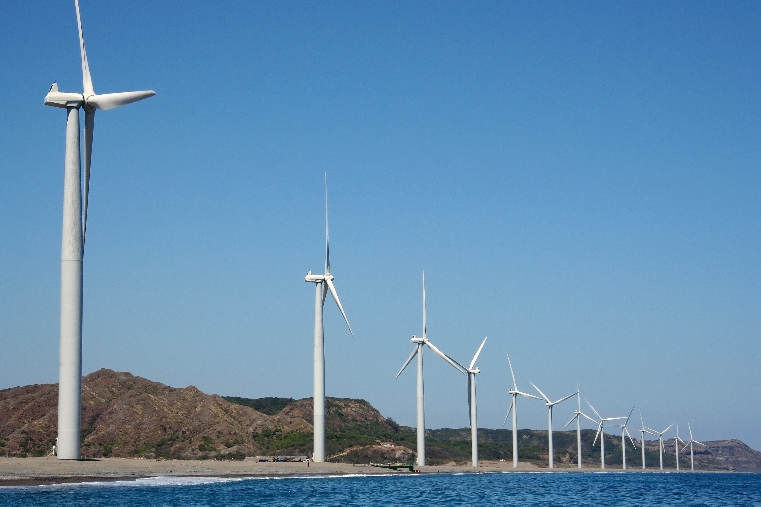 Bangui Windfarm, Ilocos Norte, Philippines